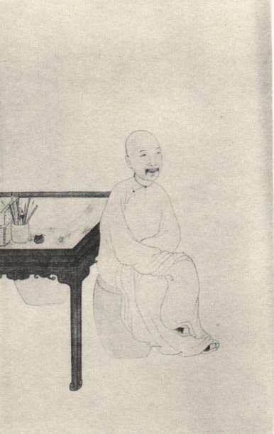 DAI Xi, scholar of the Qing Dynasty.